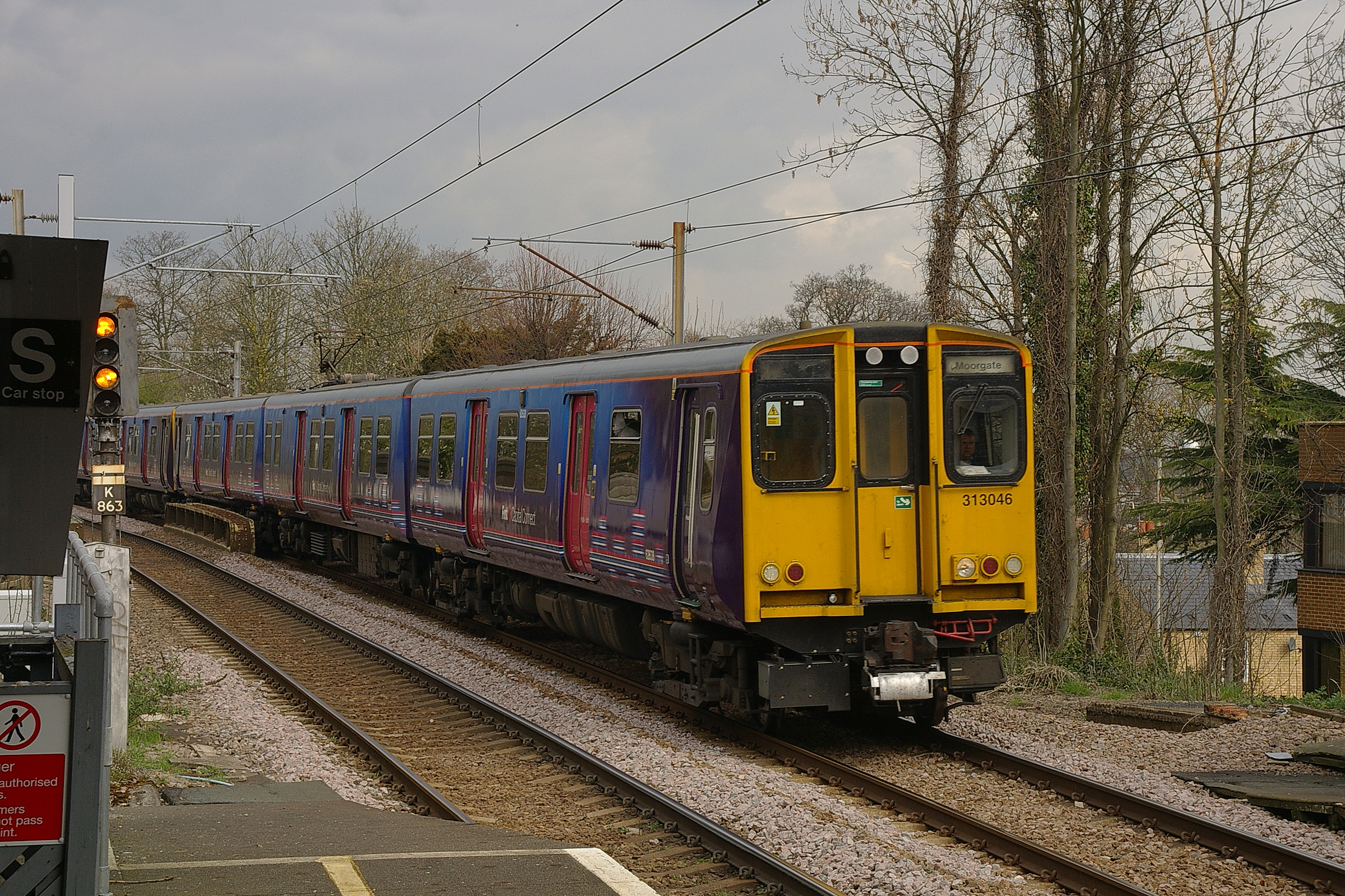 313030/313046 arrives at Enfield Chase railway station with a service to Moorgate.